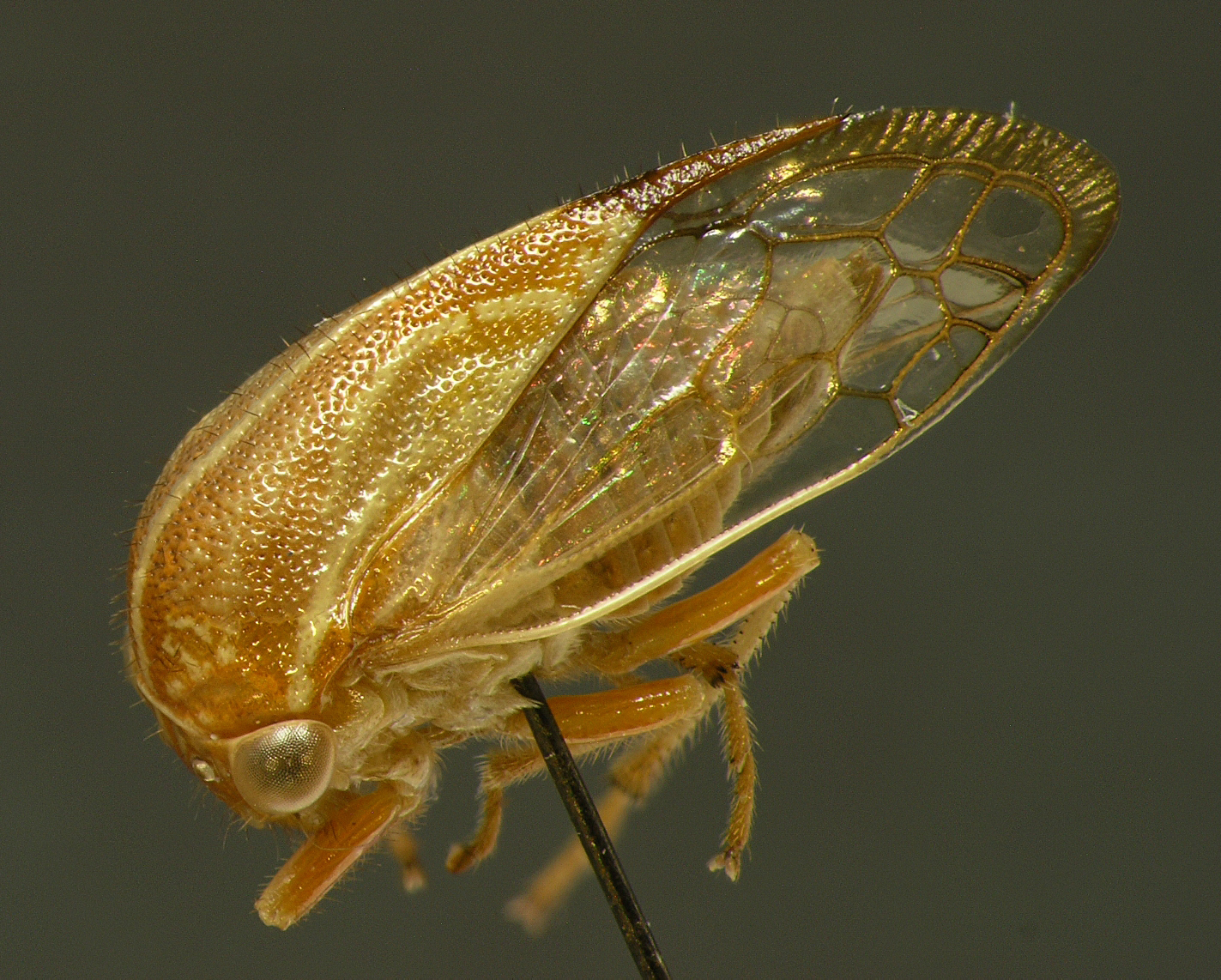 Treehopper of the species Tapinolobus curvispina (syn. T. fasciatus); collected in the Amazon lowland of Peru, Panguana, housed in Zoologische Staatssammlung München